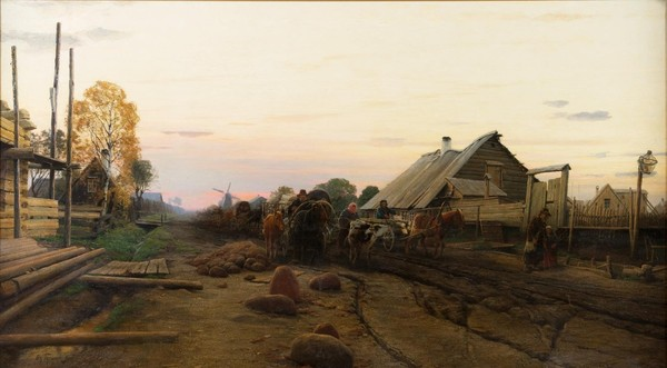 ROAD TO REVAL